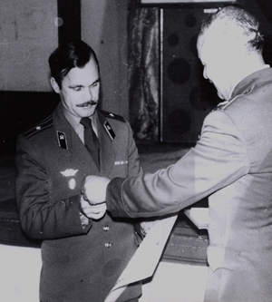 231st AA SAM Regiment awarding ceremony.